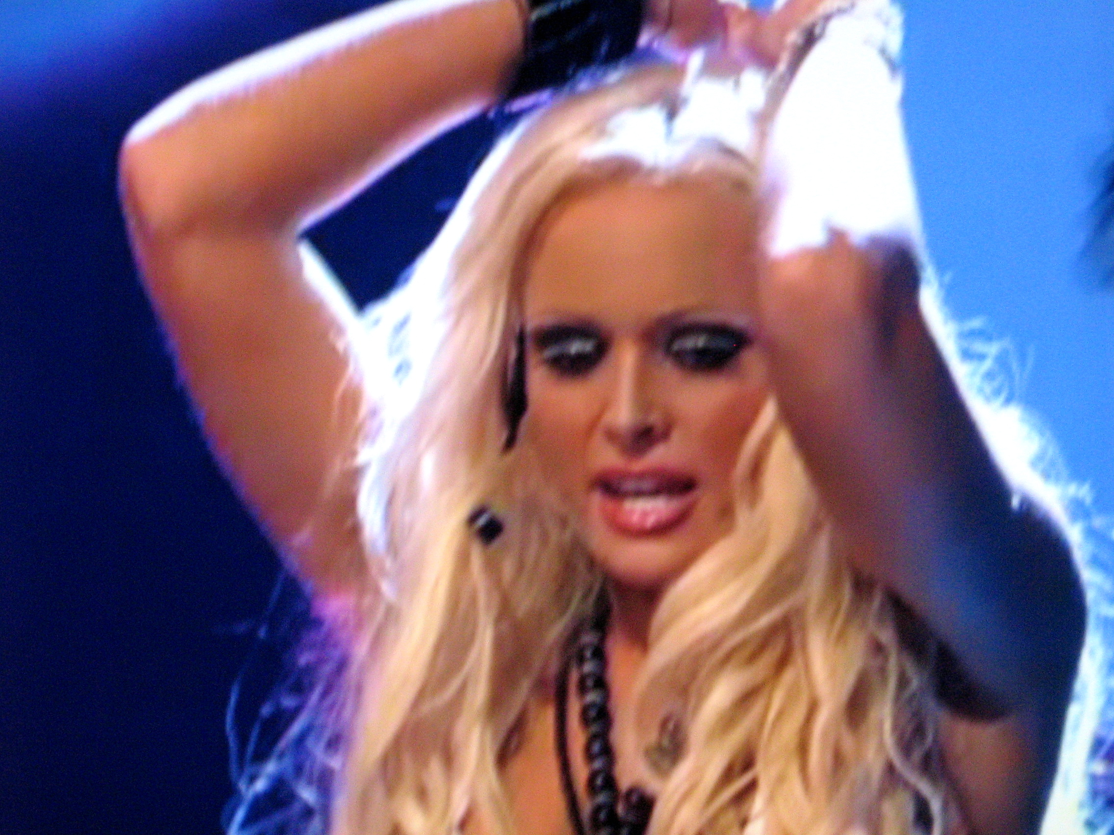 Daniela Katzenberger at The Dome 55